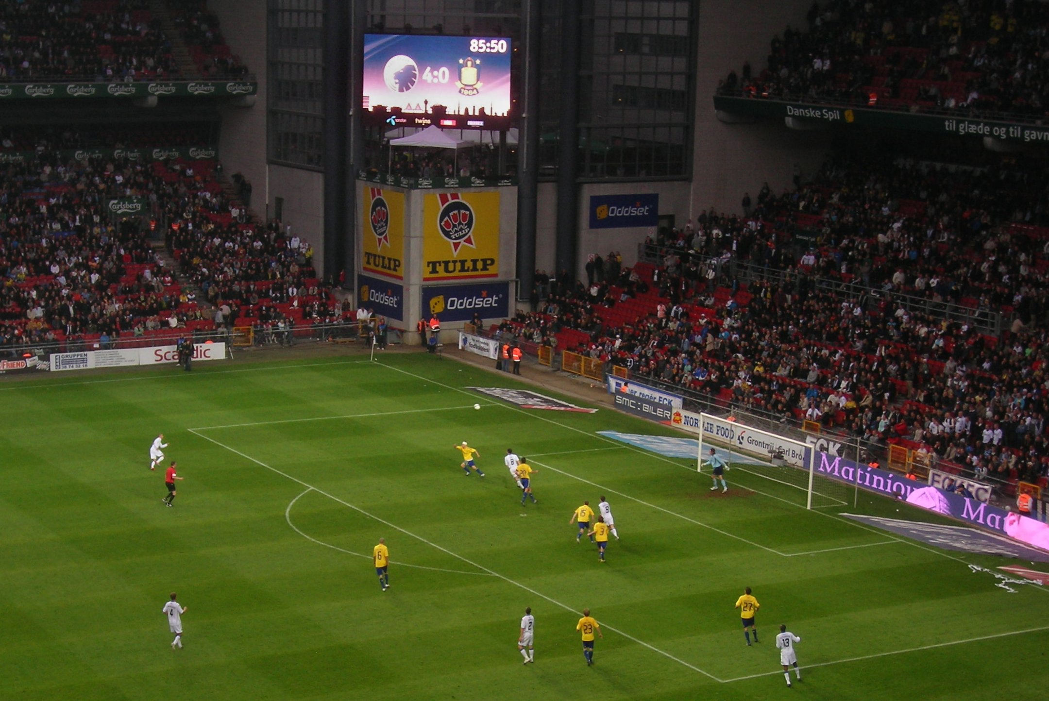 FC Copenhagen vs Brøndby